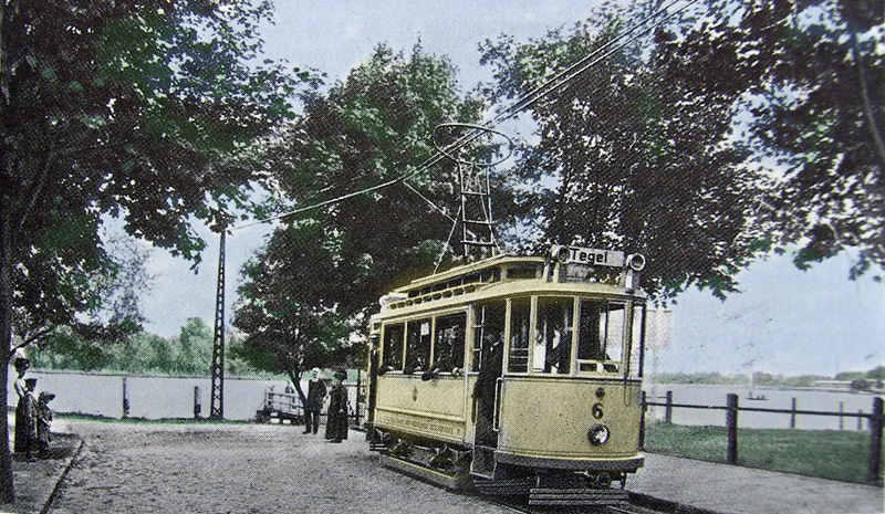 Street car at terminal stop Barschelplatz, Tegelort, Berlin